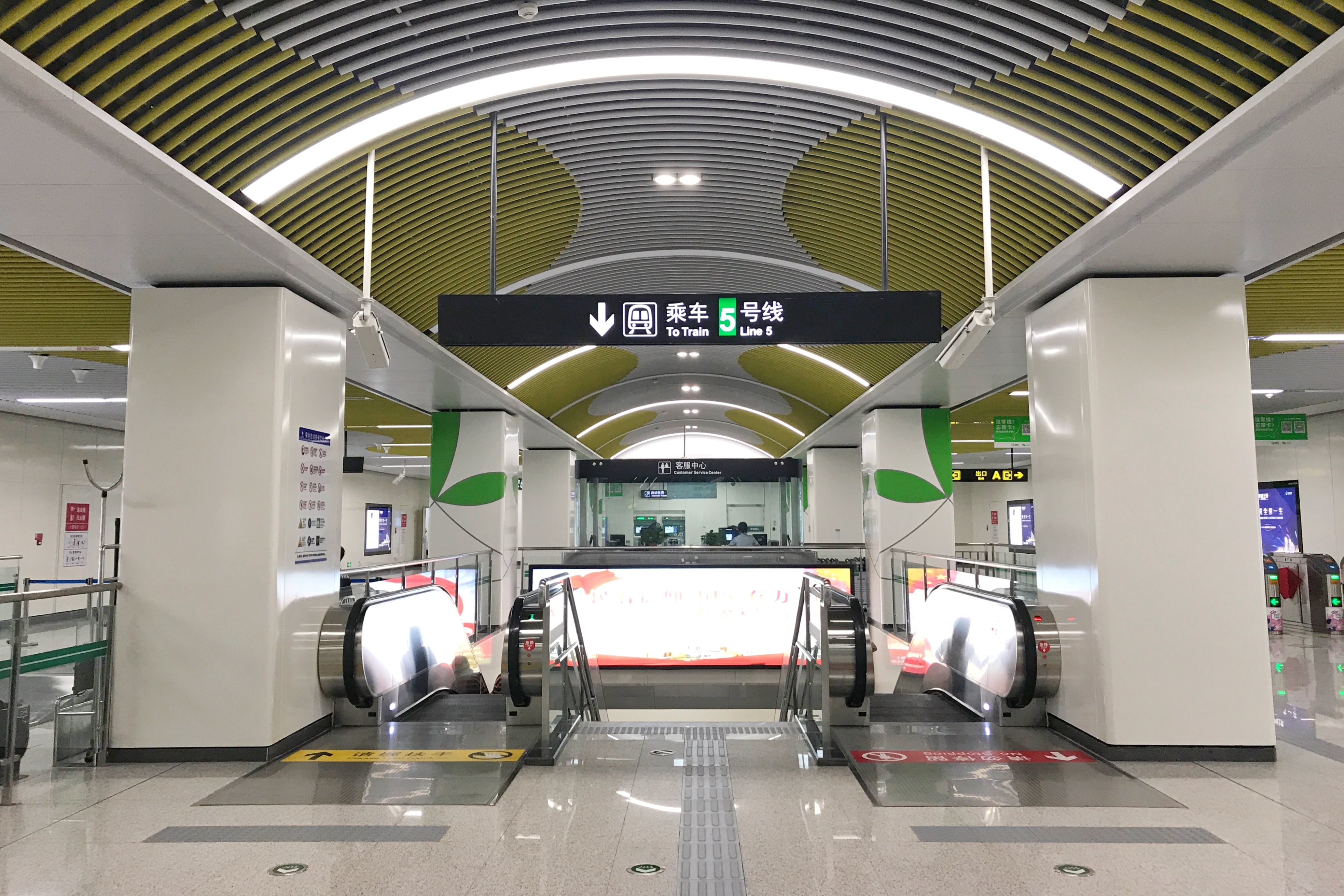 Concourse of Zhengzhou Metro Haitansi Station